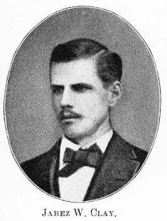 Jabez William Clay, one of six Founders of Phi Sigma Kappa Fraternity, pictured at his graduation in 1875. Low res.